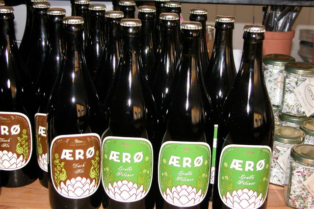 Brewery Rise